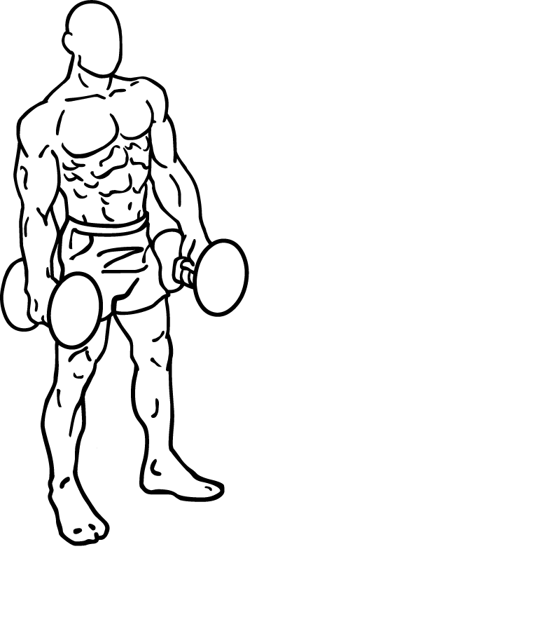 an exercise of hip